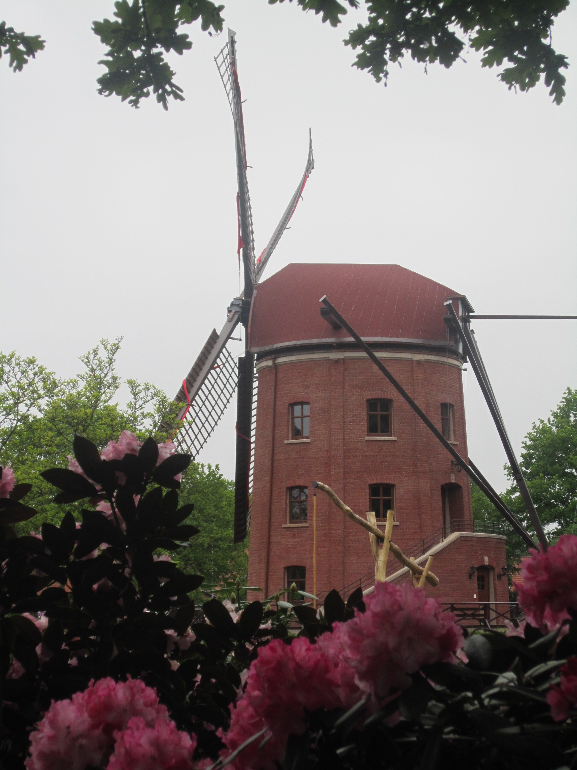 Rügenwalder Mühle in Kayhausen (Bad Zwischenahn)